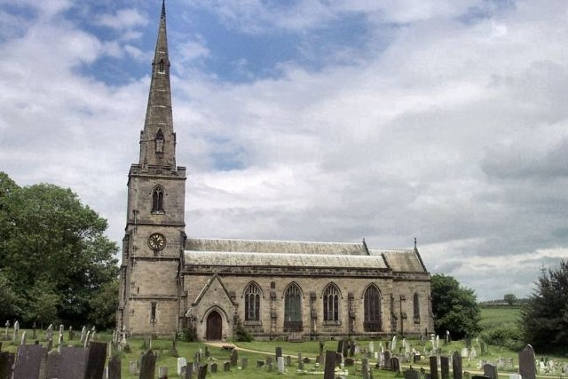 St George's parish church, Ticknall, Derbyshire, seen from the south